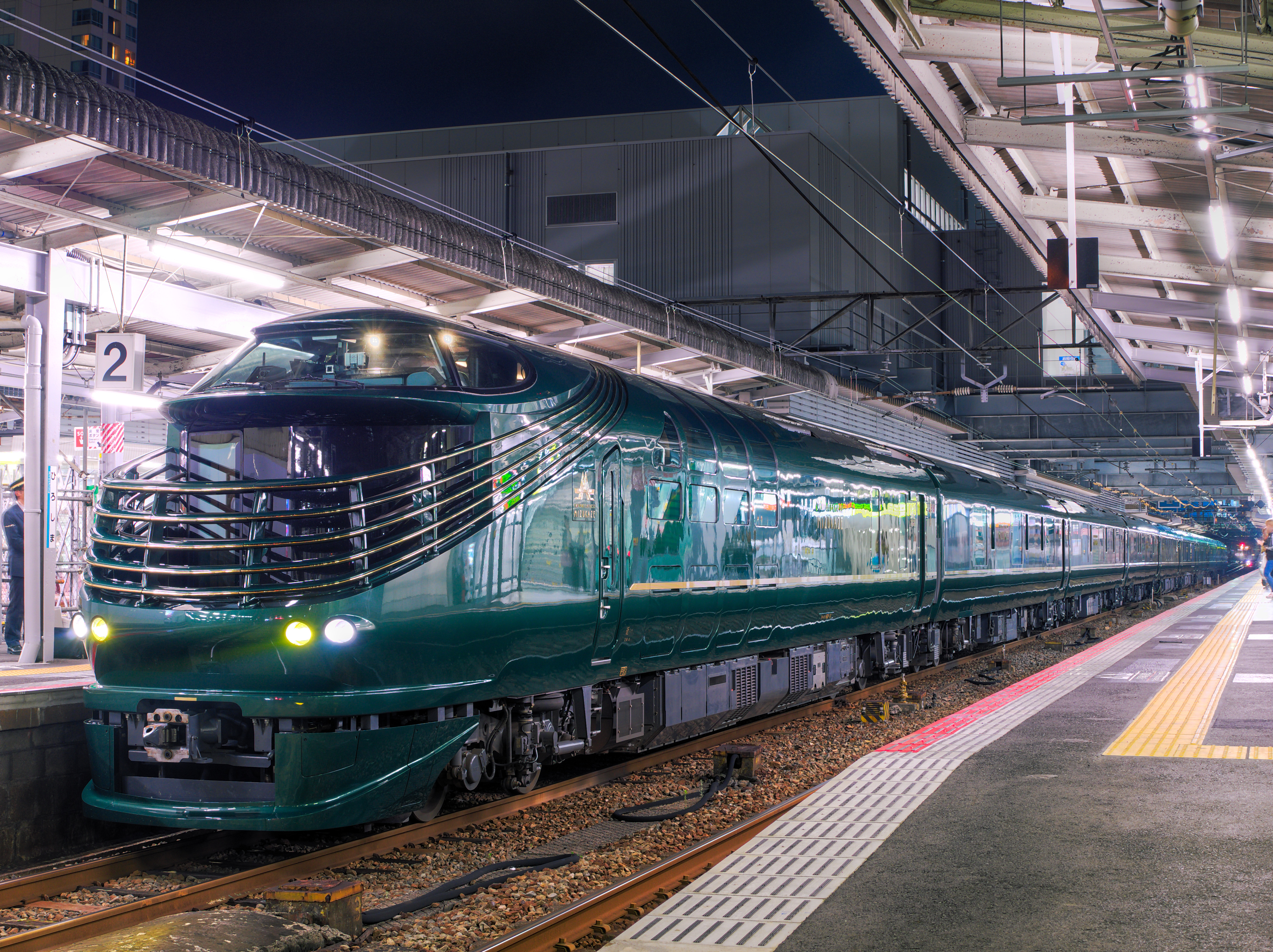 The JR West KiHa 87 series Twilight Express Mizukaze hybrid DMU cruise train at Hiroshima Station